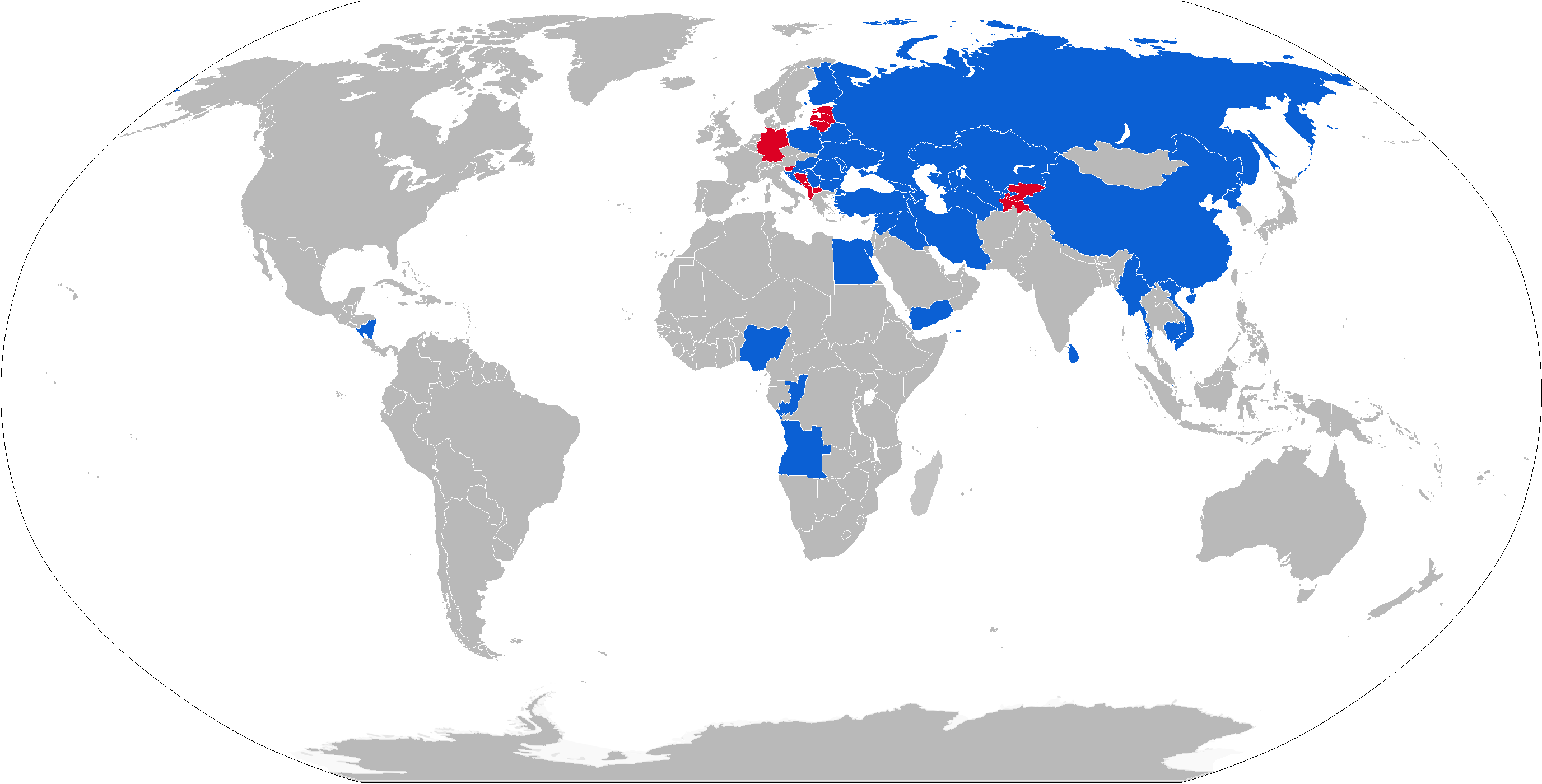 Map of D-20 operators in blue with former operators in red